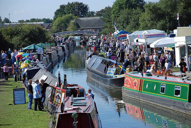 Black Country Boat Festival. A busy Sunday.